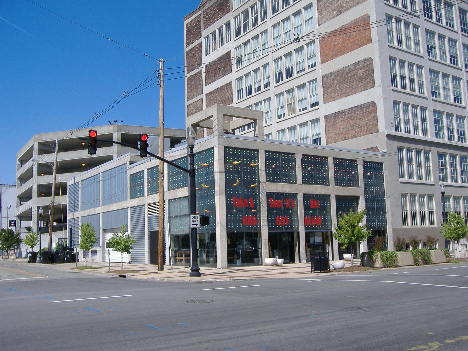 Image of the Louisville Glassworks in Louisville, Kentucky